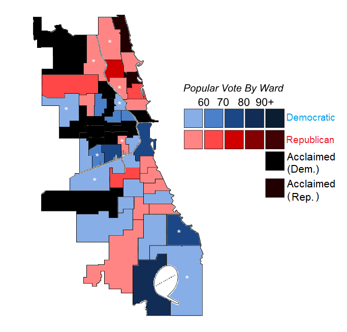 Chicago aldermanic results, 1927. White asterisk indicates result in runoff.